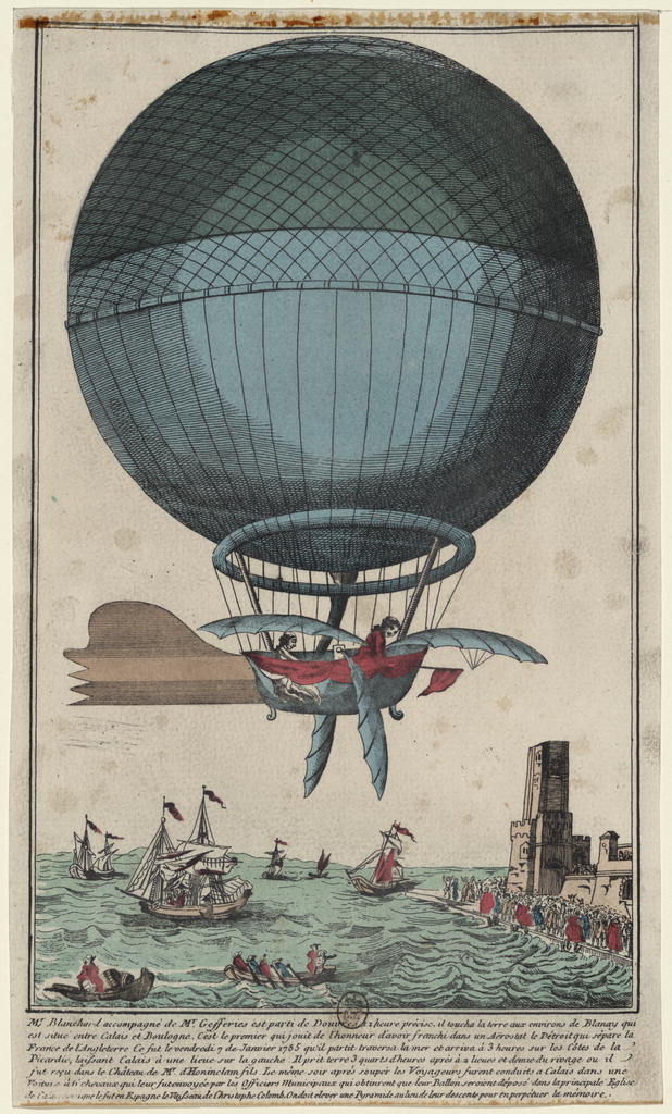 Print shows Jean Pierre Blanchard and John Jefferies arriving in Calais after crossing the English Channel in a gas balloon on january 7, 1785